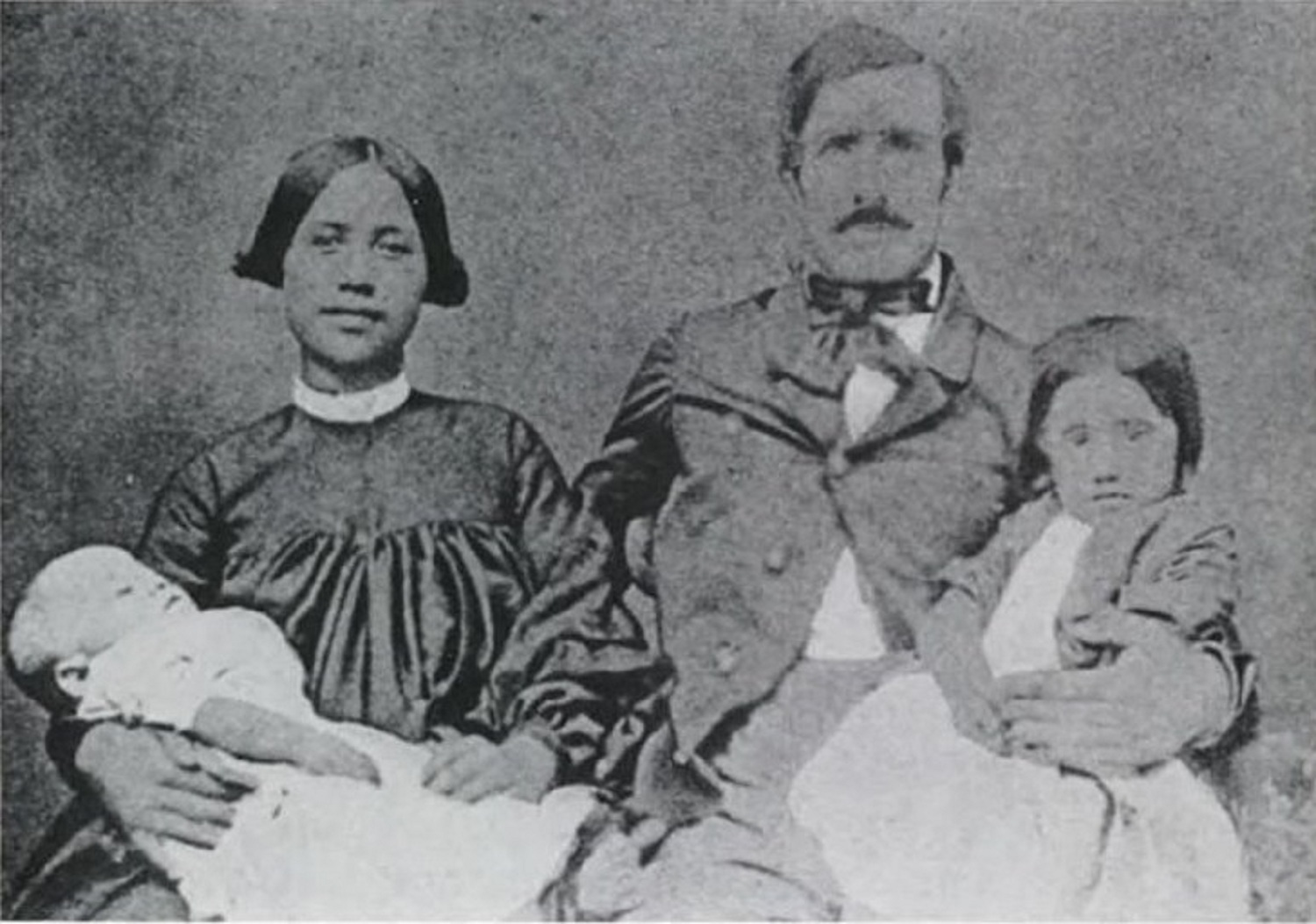 Hermann A. Widemann with his wife Mary Kaumana and two daughters Emma Kalanikauleleiwinuiamamao Widemann (1852–1931) and Martha Pilahiulani Widemann (1854–1933).